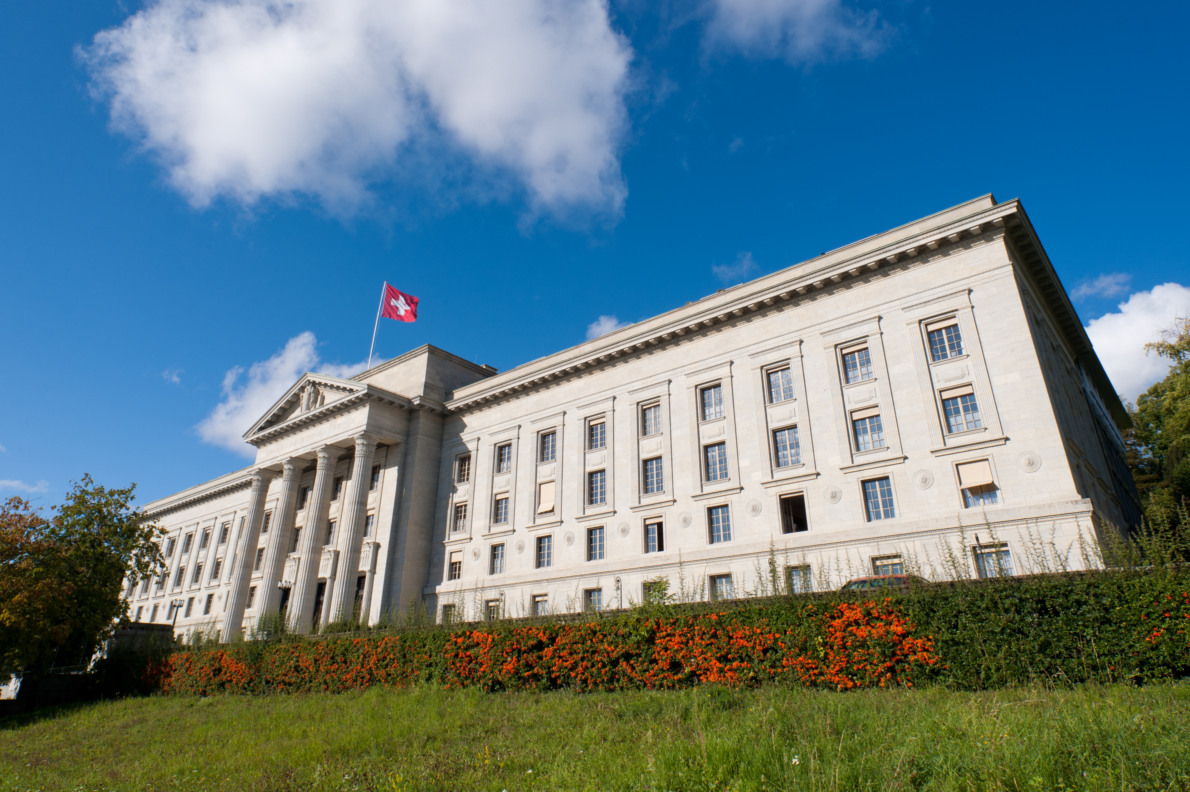 Tribunal Fédéral, Lausanne